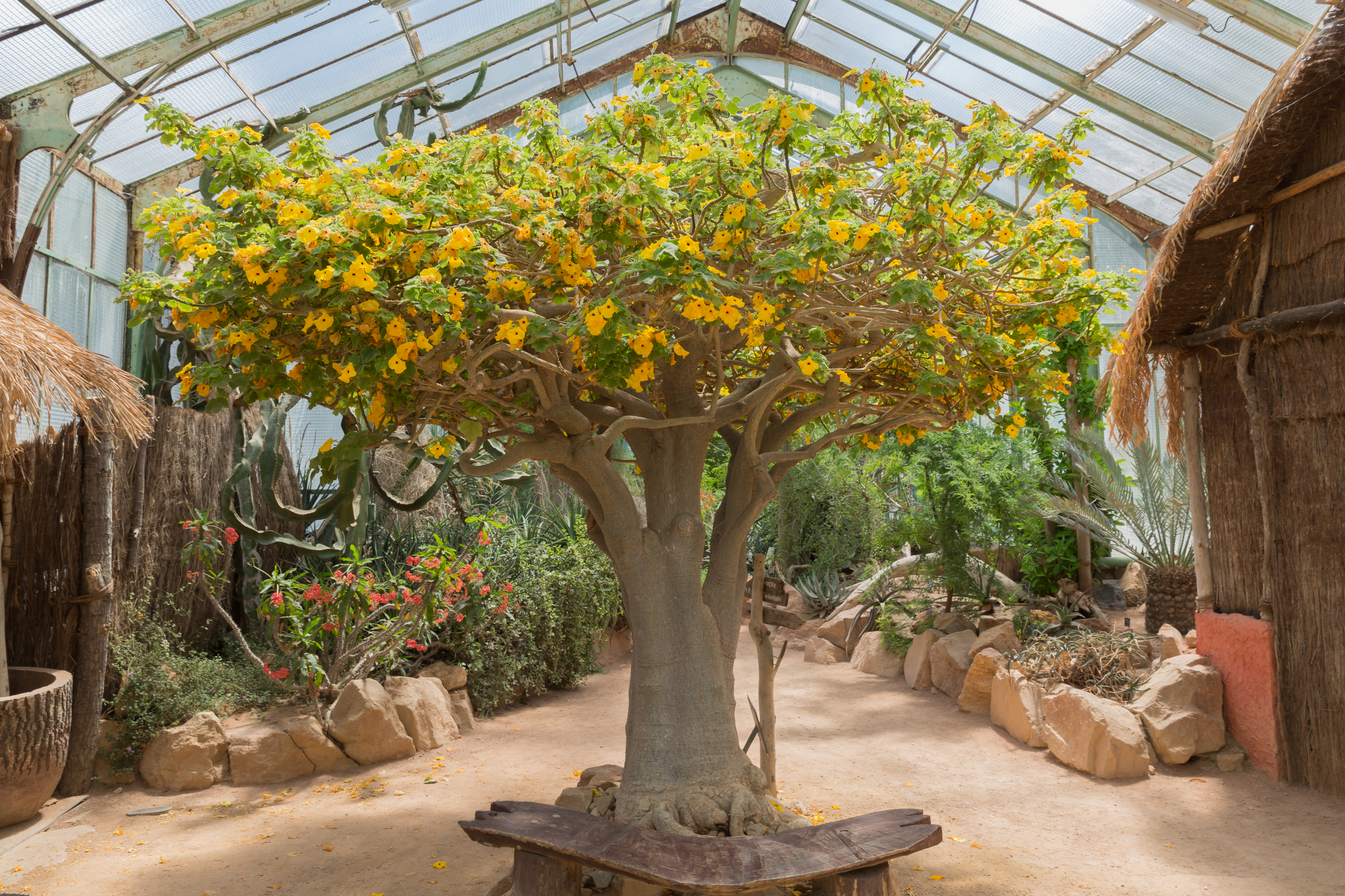 Uncarina grandidieri in the jardin botanique de Lyon, France.